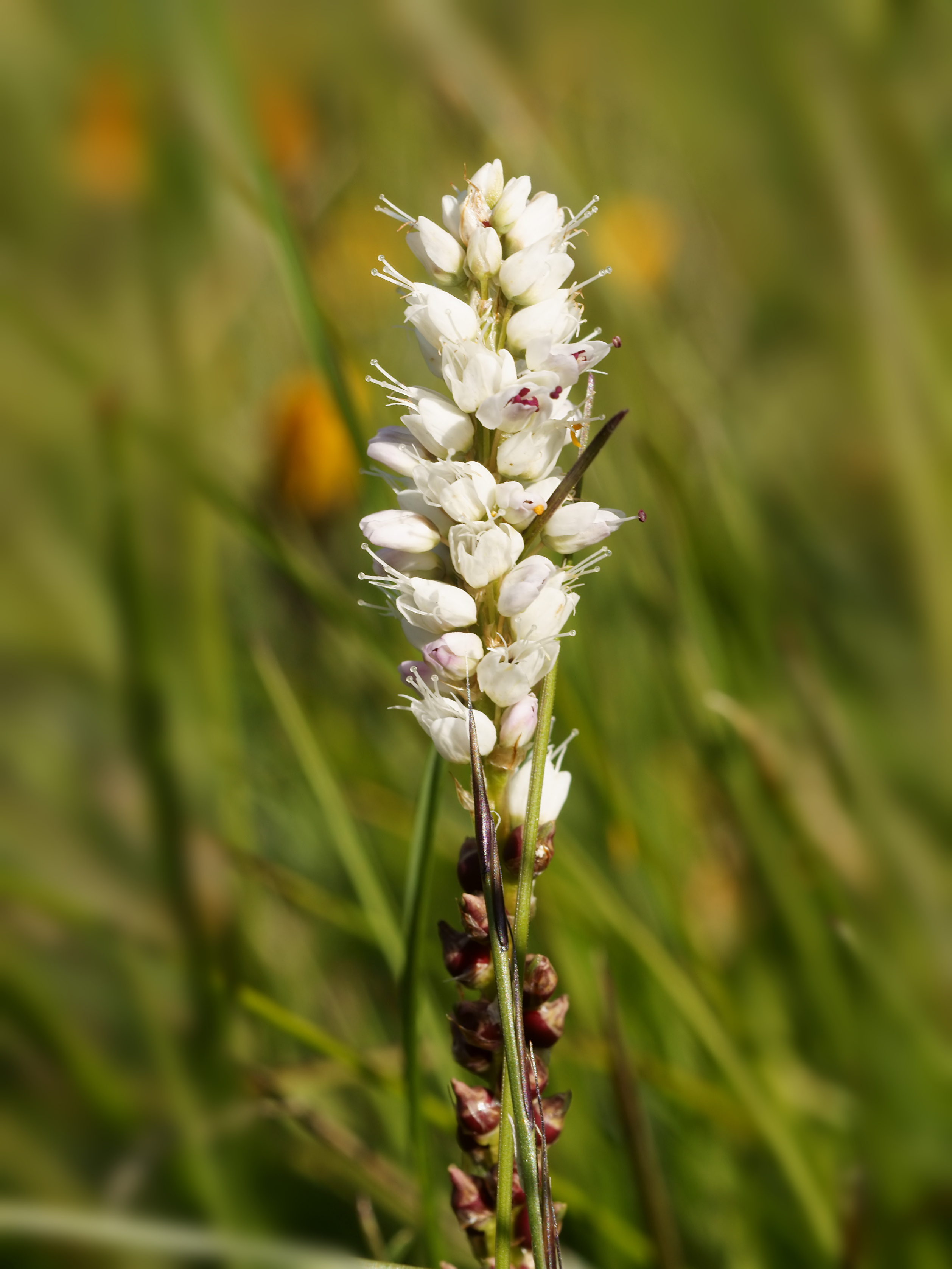 Alpine bistort, at the Simplon Pass, Wallis, Switzerland